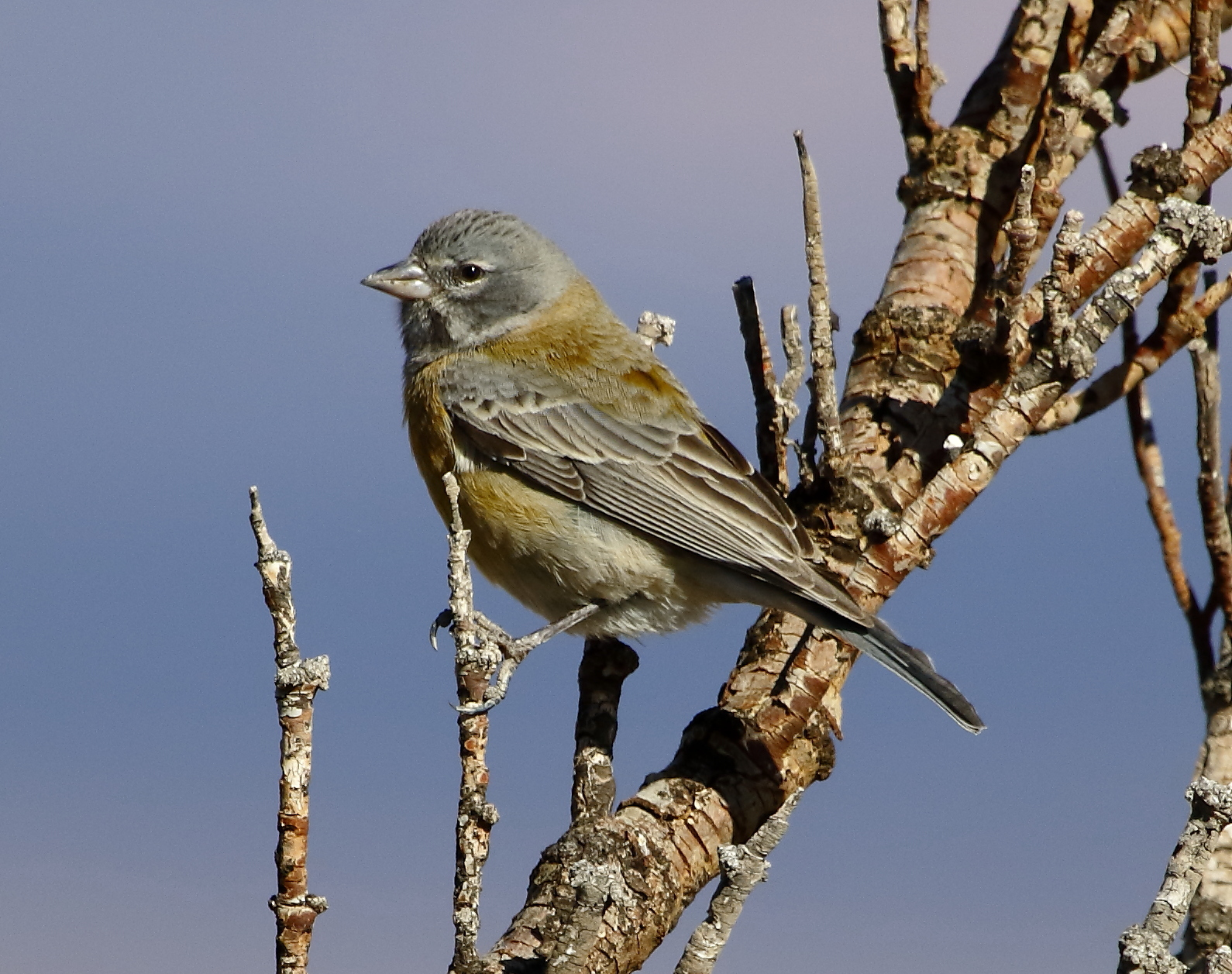 Gray-hooded sierra finch (female) at El Leoncito National Park, San Juan, Argentina